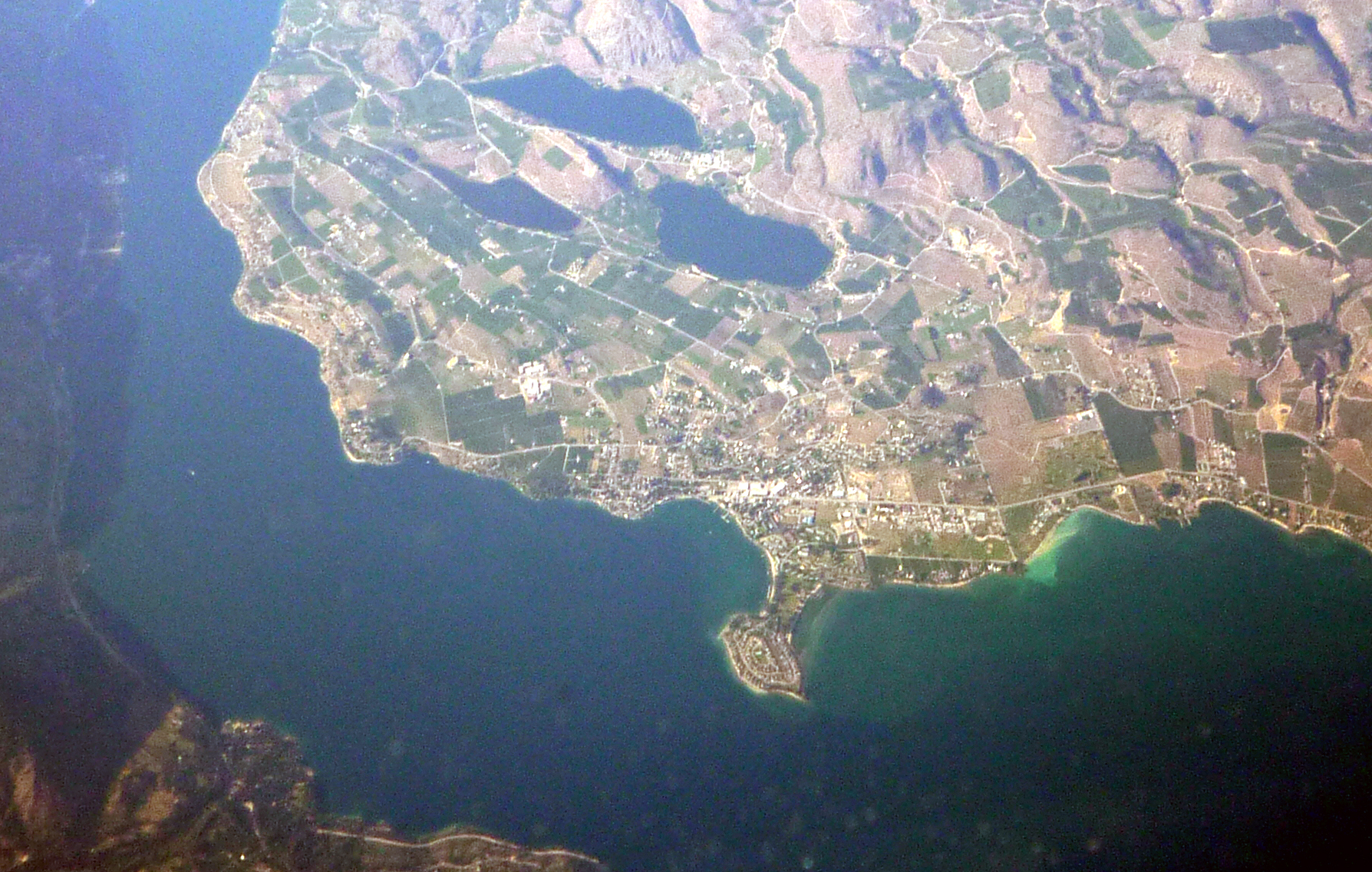 Aerial photo of Manson, Washington, USA.